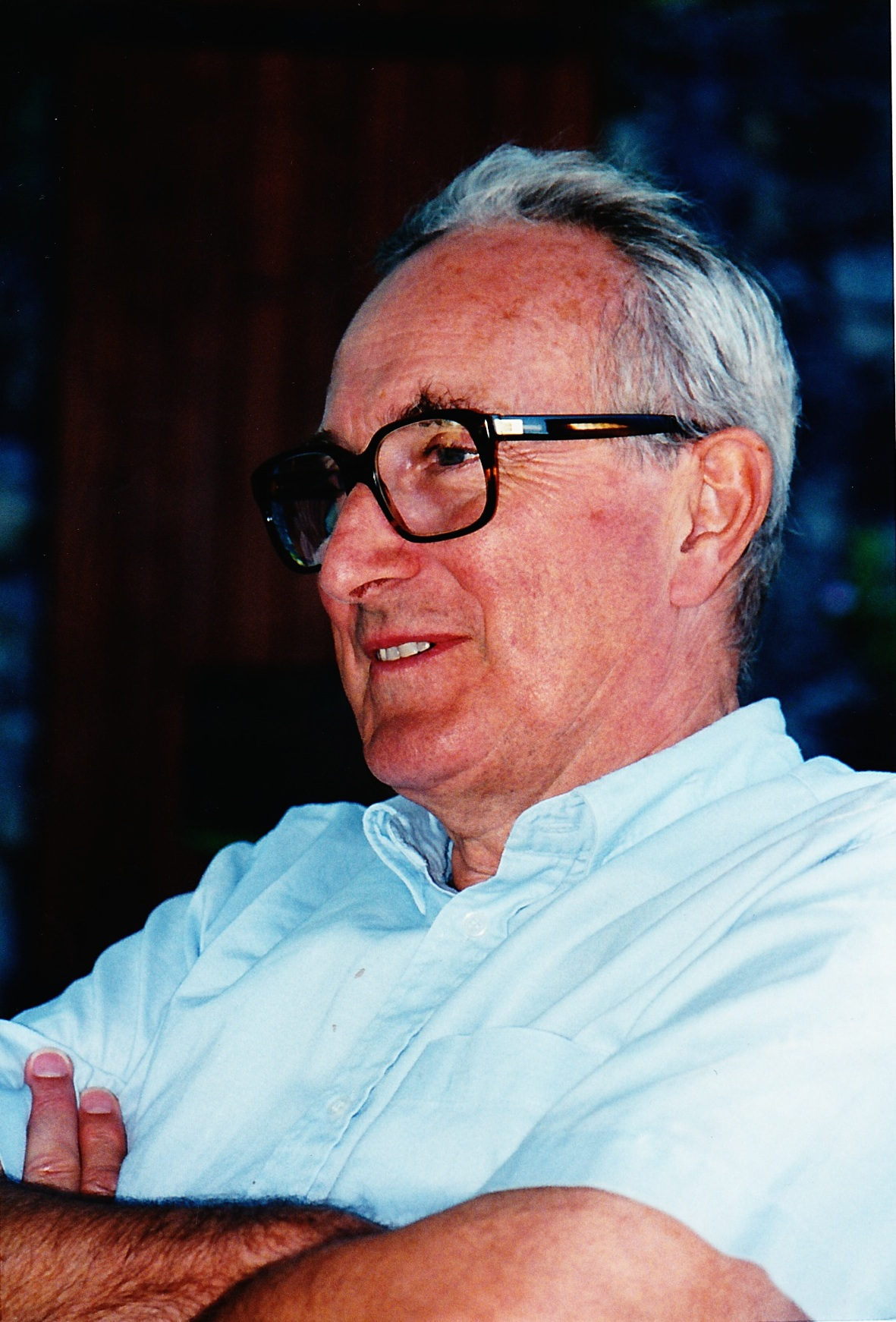 Christian Jouanin